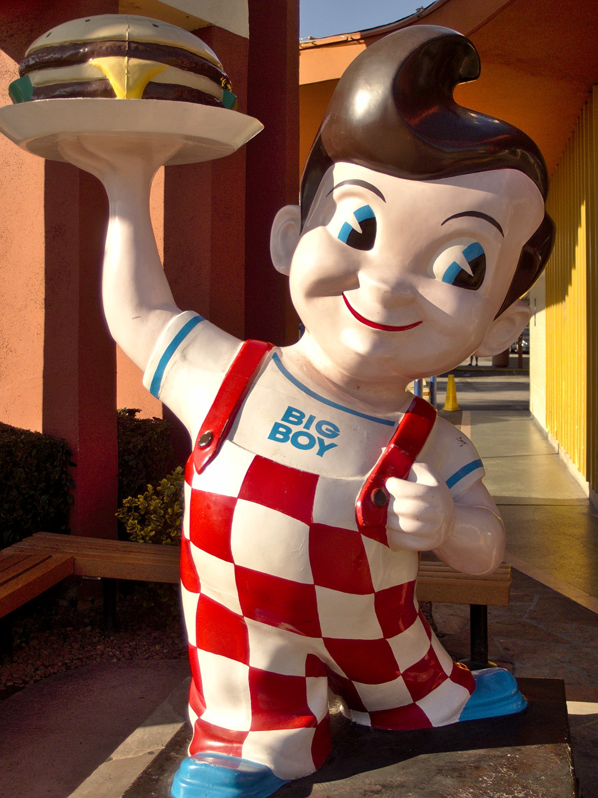 Statue in front of Bob's Big Boy restaurant in Burbank, California, which was designated a California Point of Historical Interest in 1993.